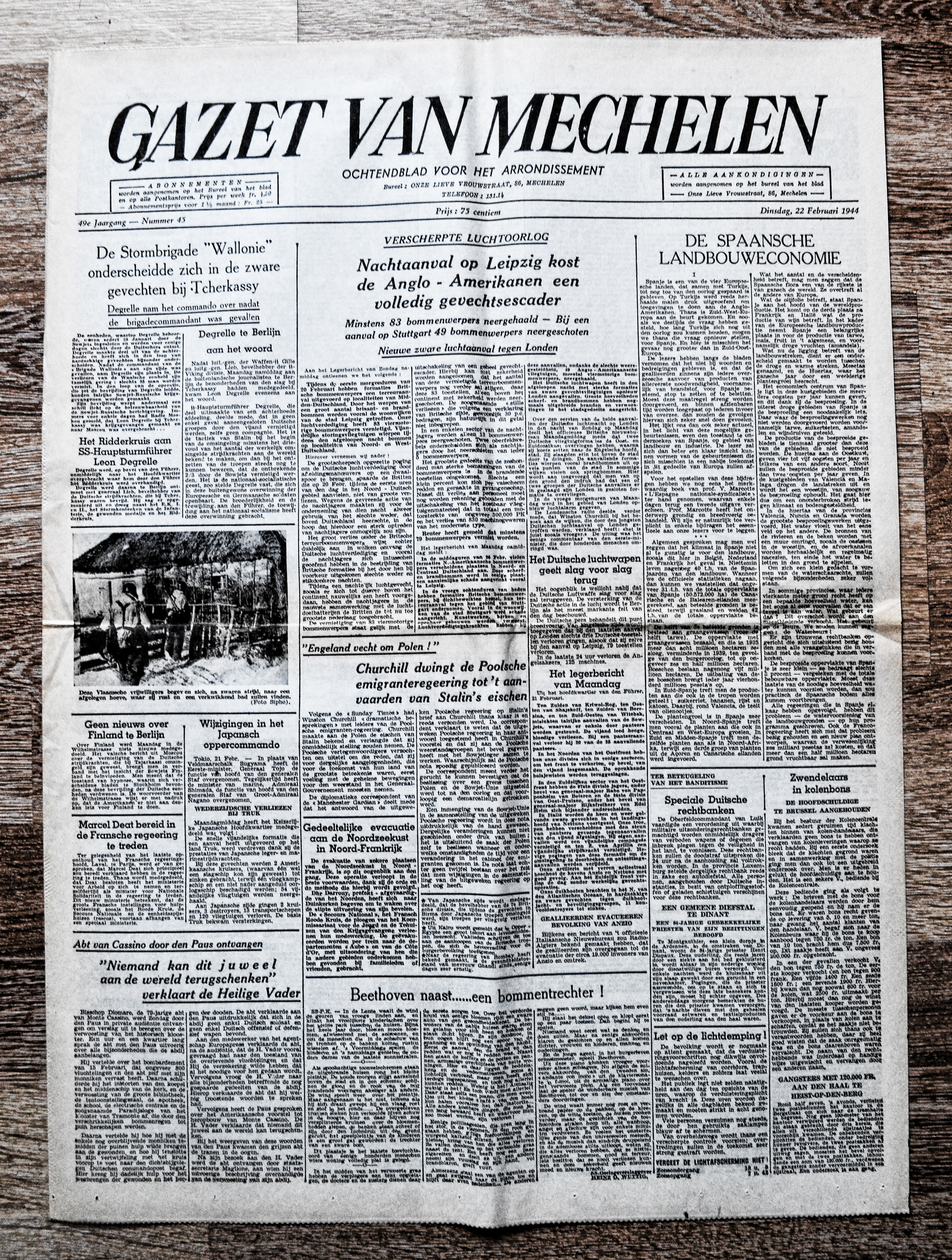 Front page of Flemish daily newspaper "Gazet Van Mechelen" 22 February 1944